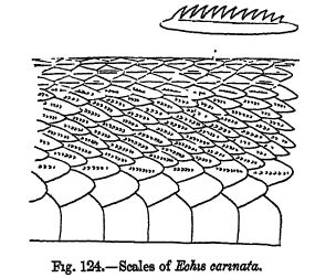 Scales of Echis carinatus